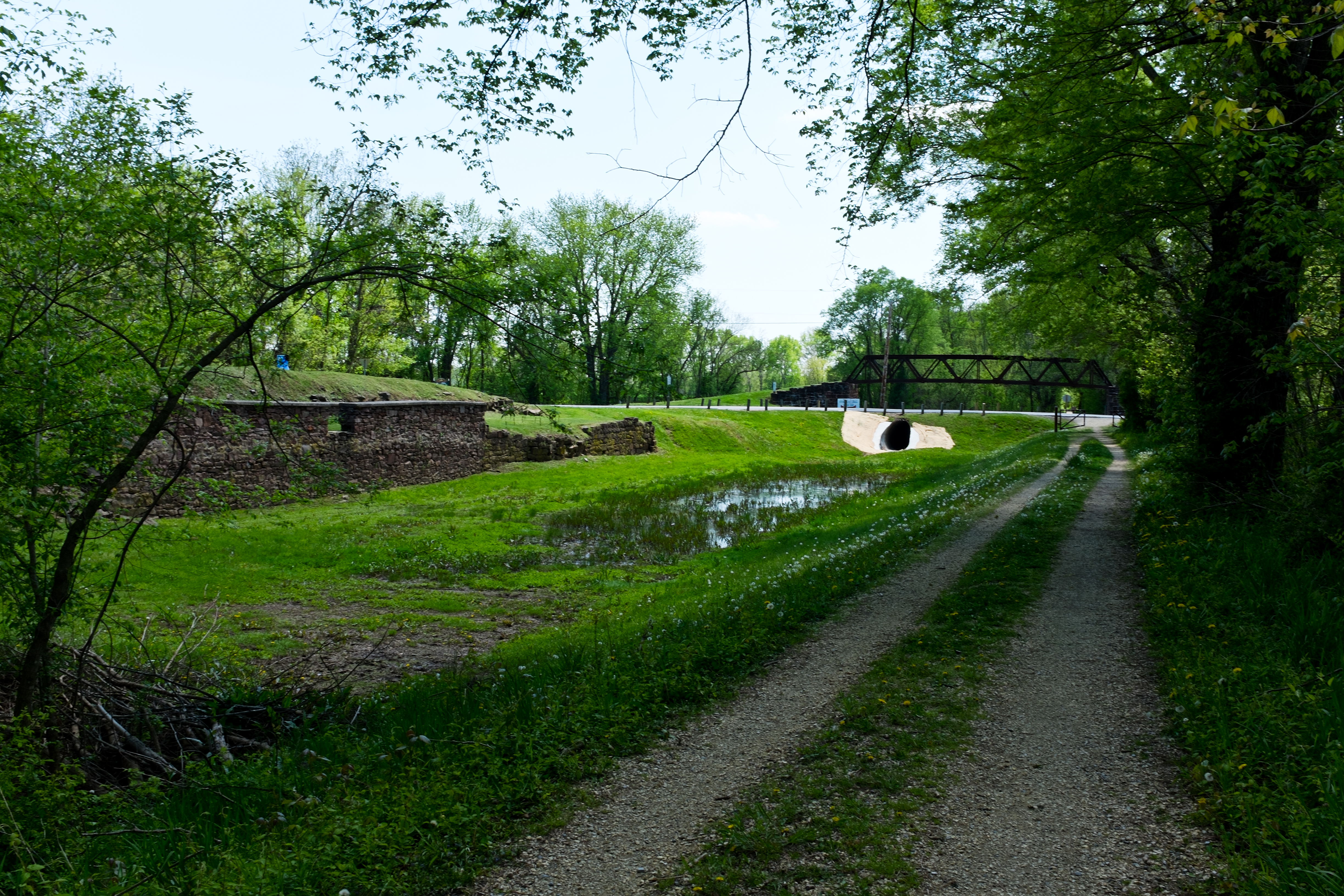 Chesapeake and Ohio Canal at White's Ferry. MD 107 crosses it. According to the NPS brocure Granaries at Whites Ferry and Monocacy Village those are the remains of the granary that White built.